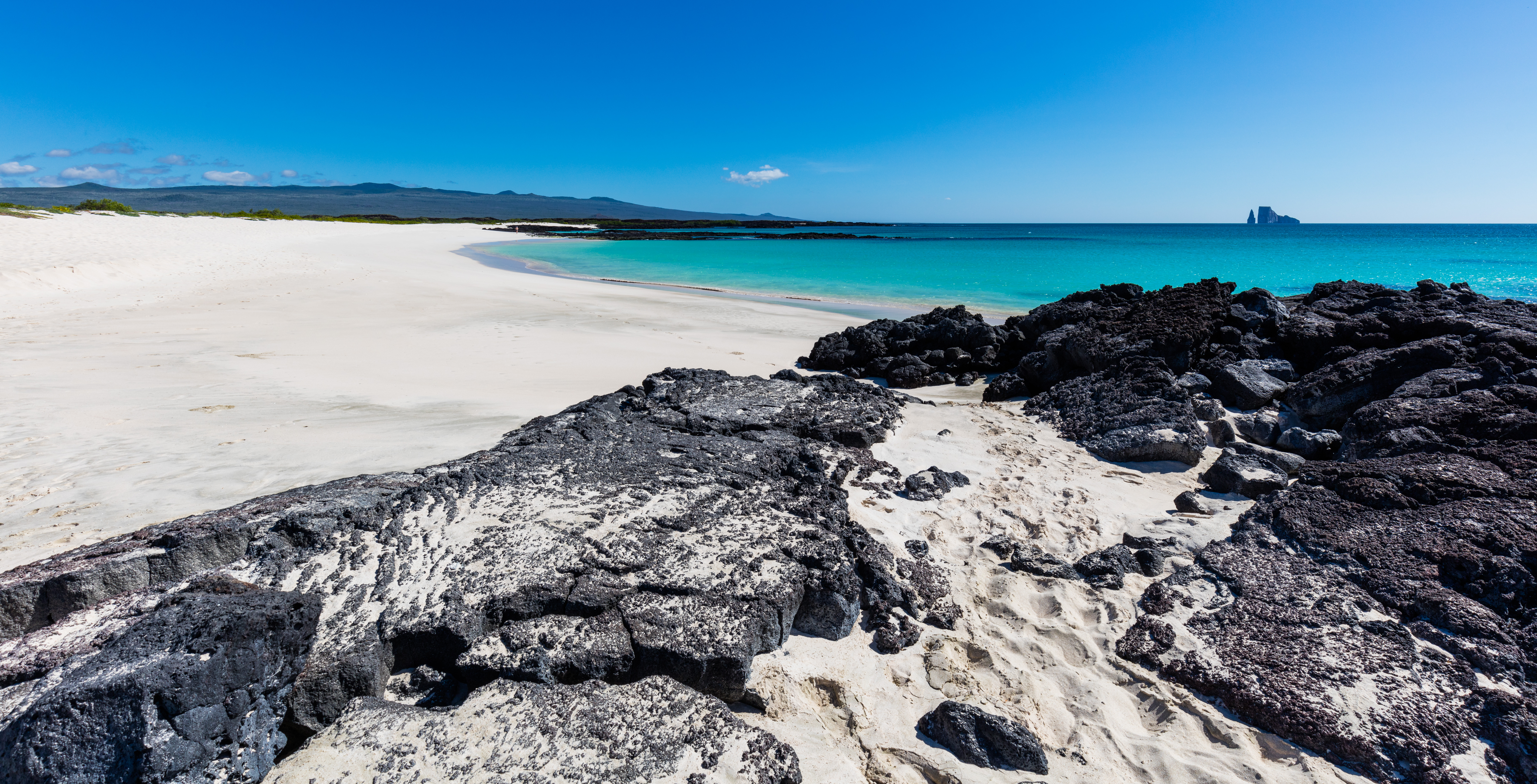 View of Cerro Brujo, San Cristobal Island, Galapagos Islands, Ecuador